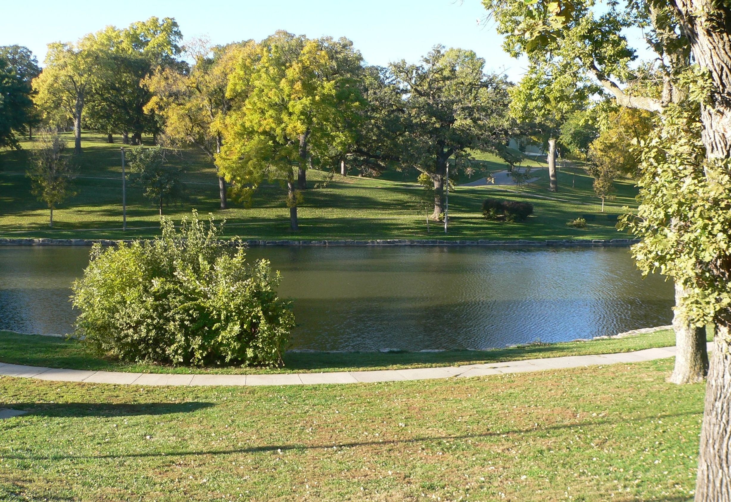 Hanscom Park in Omaha, Nebraska. Camera is facing generally southward, toward lake on west side of Park Avenue near Shirley Street.